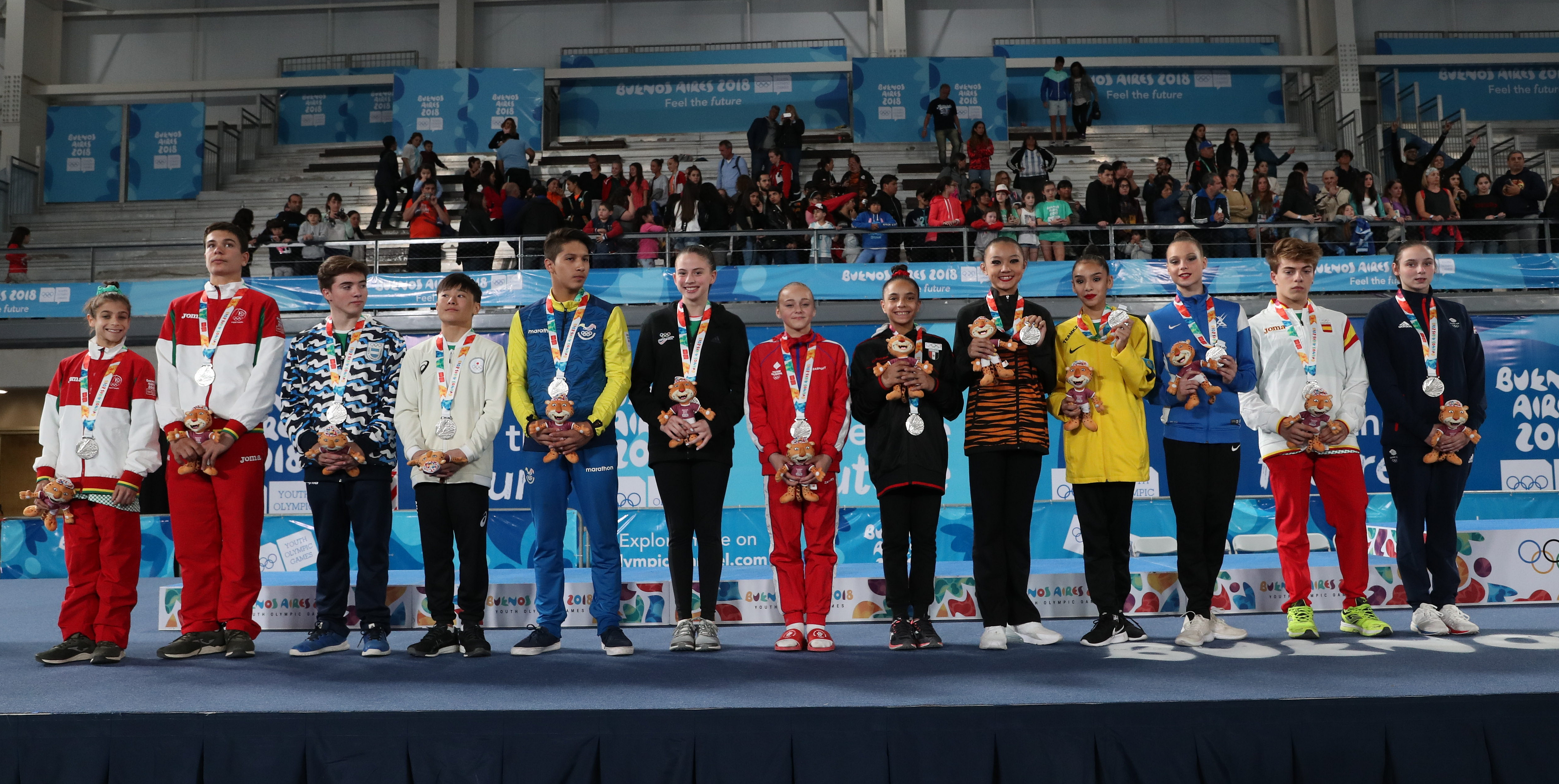 Victory ceremony for the gymnastics mixed multi-discipline team competitio at the 2018 Summer Youth Olympics in Buenos Aires on 10 October 2018.